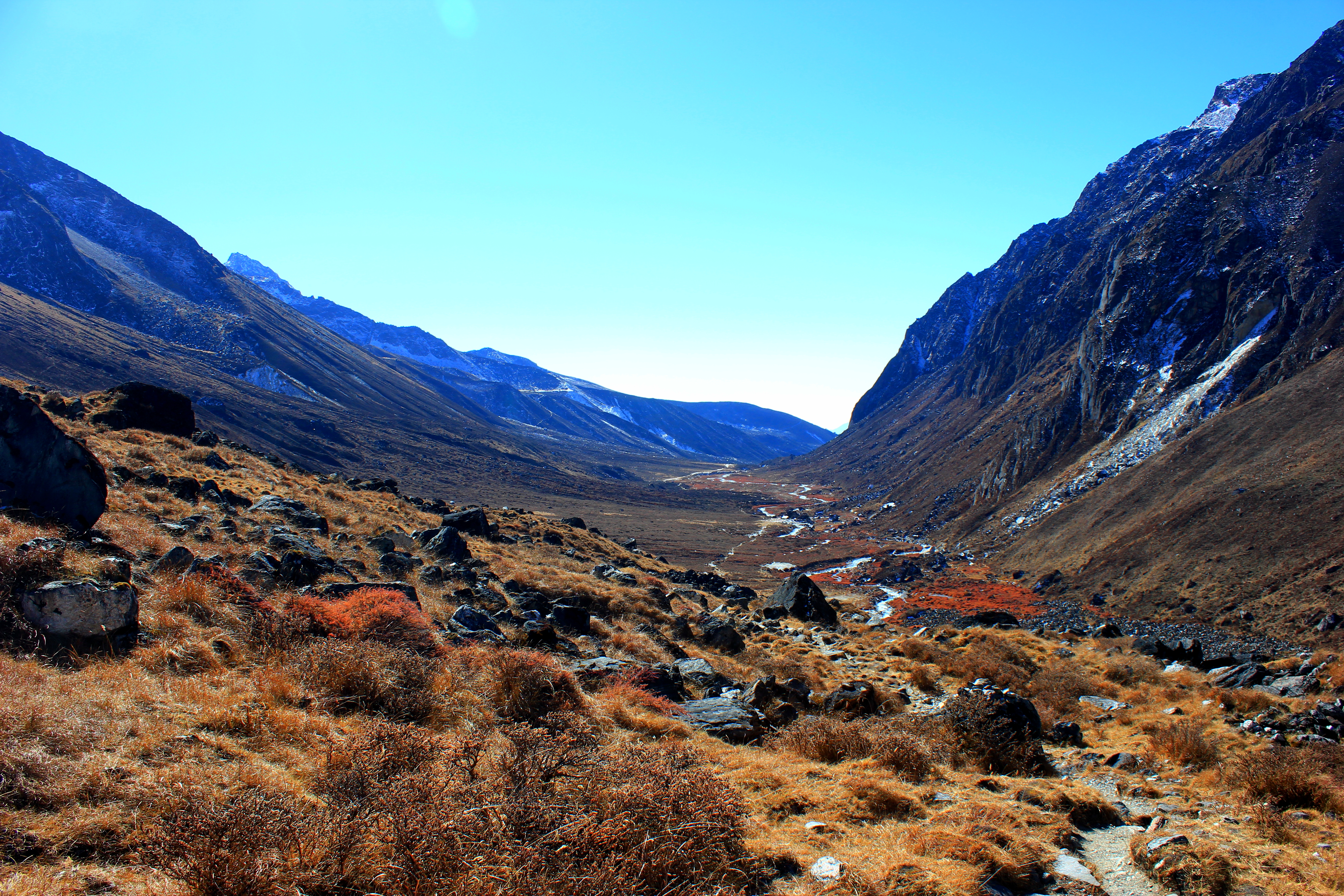 Lamuney Valley, near Goecha la, Sikkim, India